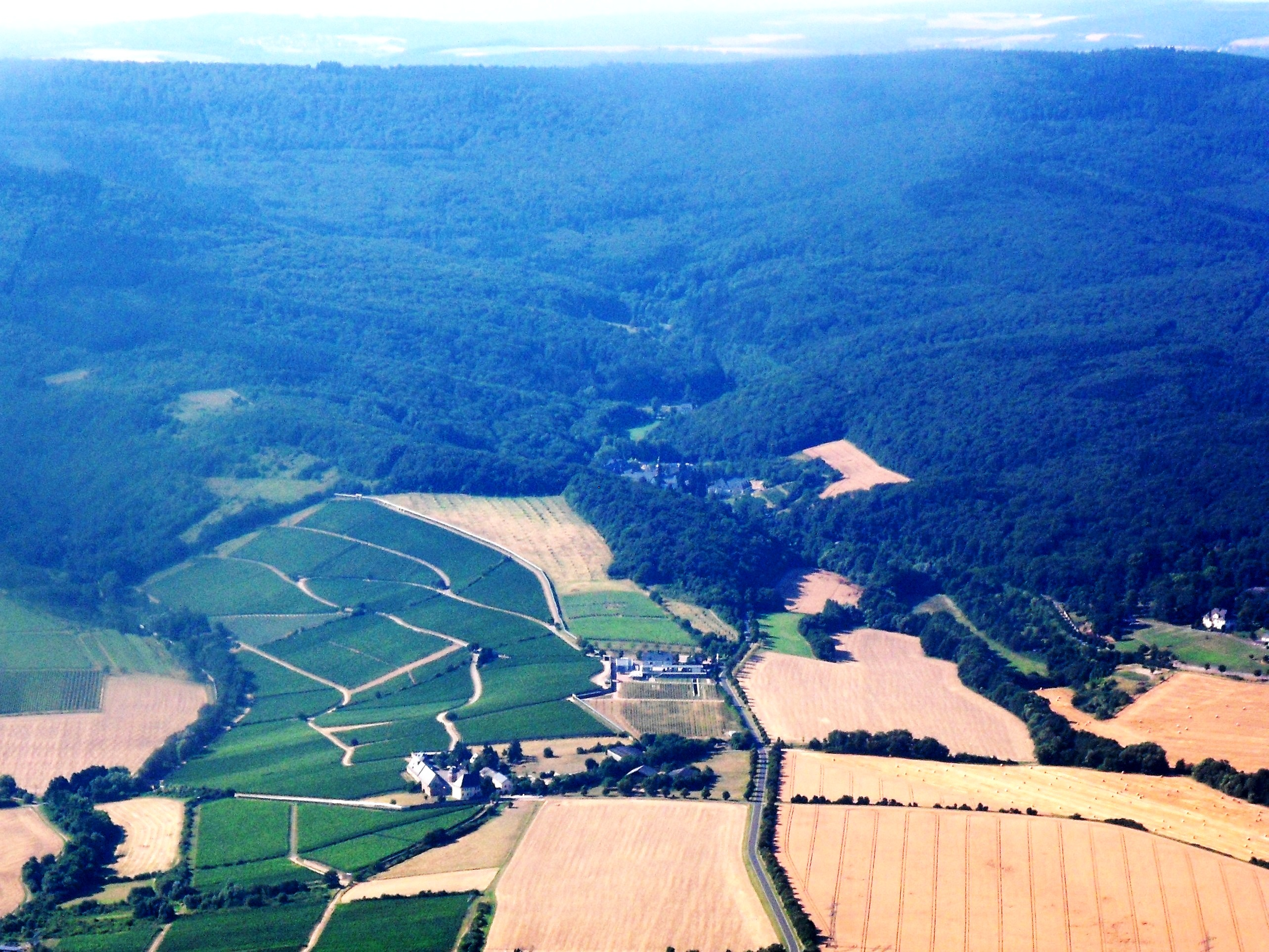 Birds eye view from the south at the Steinberg vineyard site of the Hessian State Vinery. The winecellar buildings are located at the right. In front of them the Domain Neuhof with large agricultural areas. In the valley hidden right behind the Steinberg, the roofs of Eberbach Abbey can be seen.